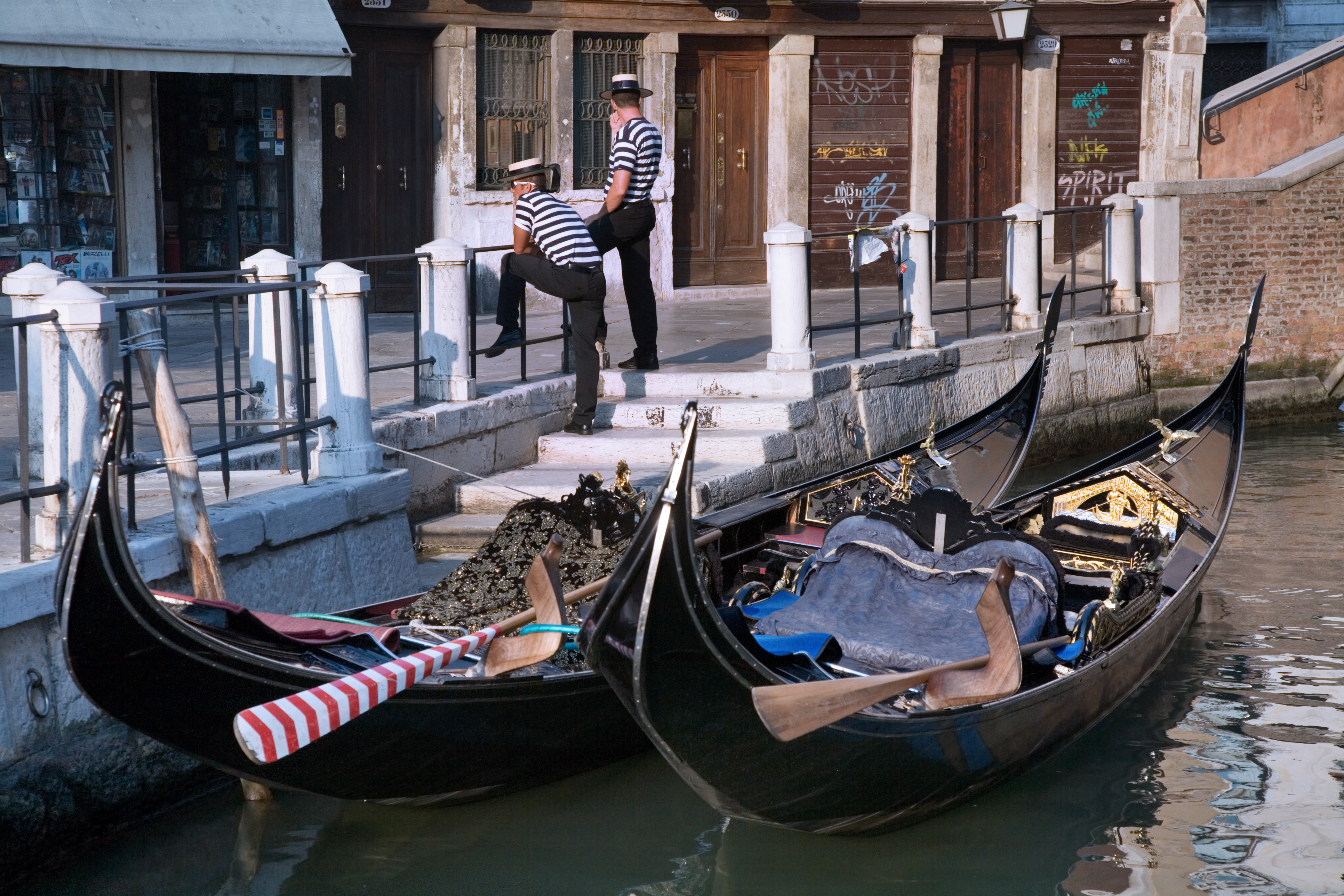 Gondolas in a Venice inner channel. Venice, Italy 2009